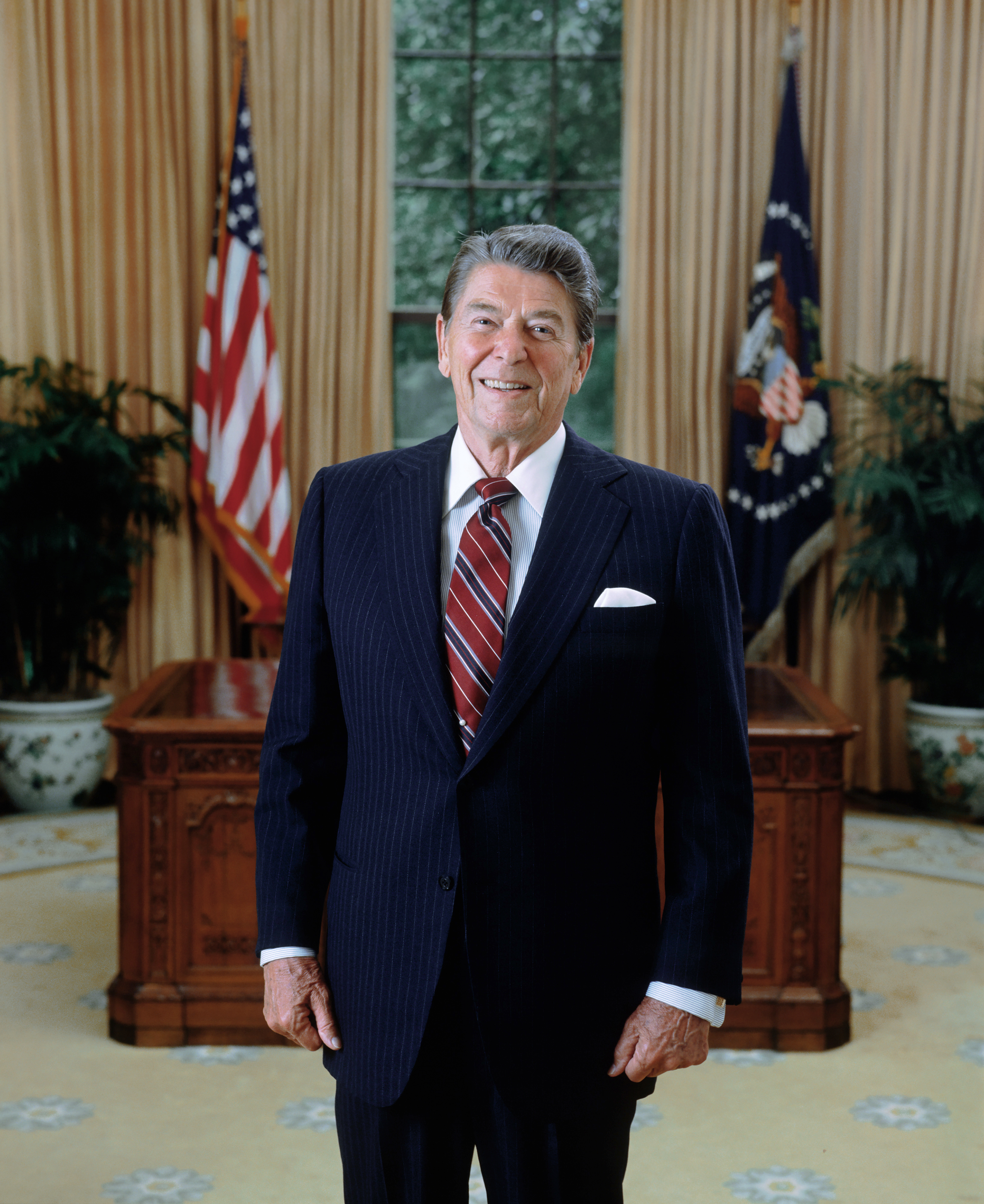 Ronald Reagan's presidential portrait in 1985